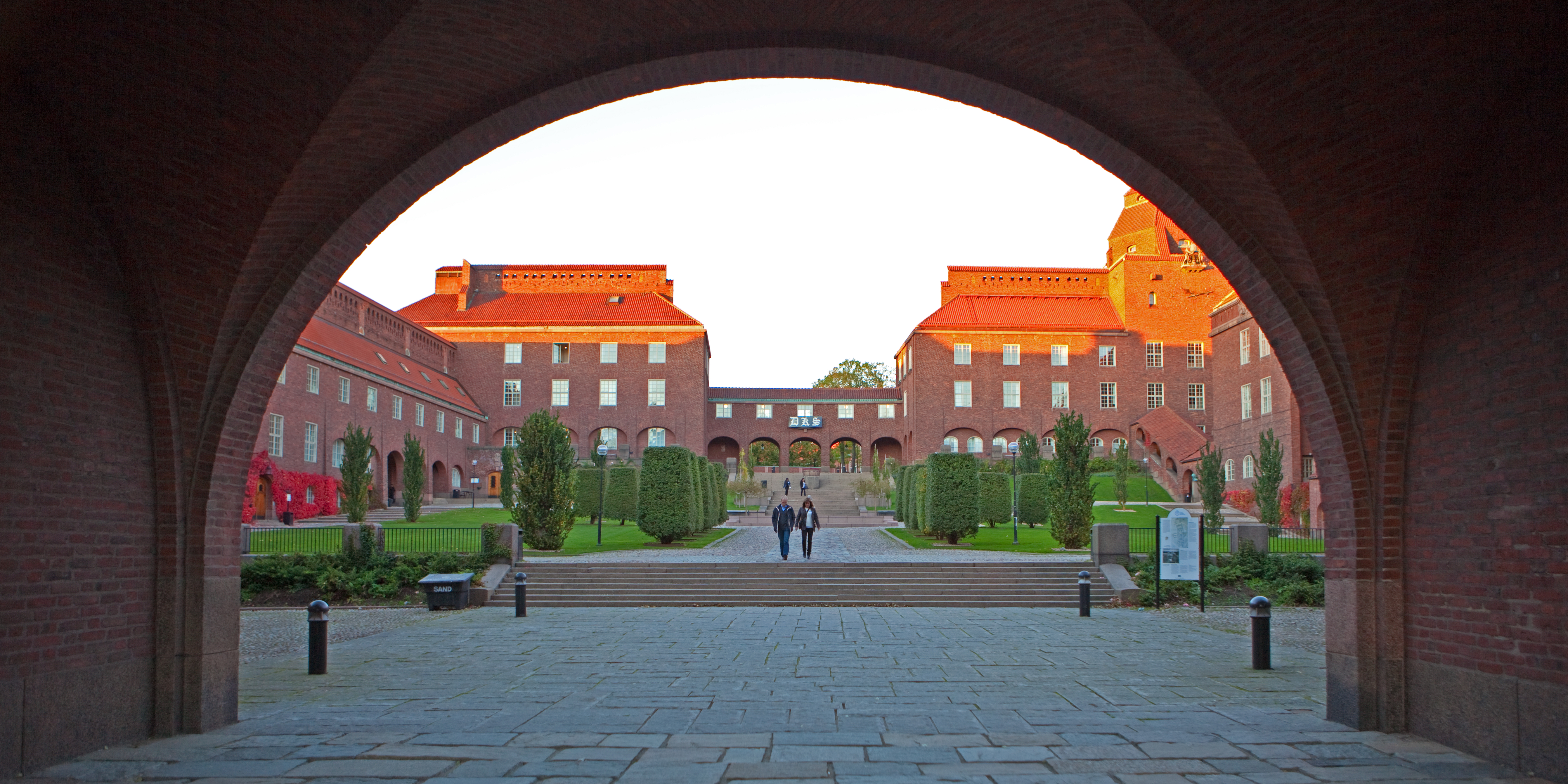 KTH, Royal Institute of Technology, Stockholm Sweden October 2012